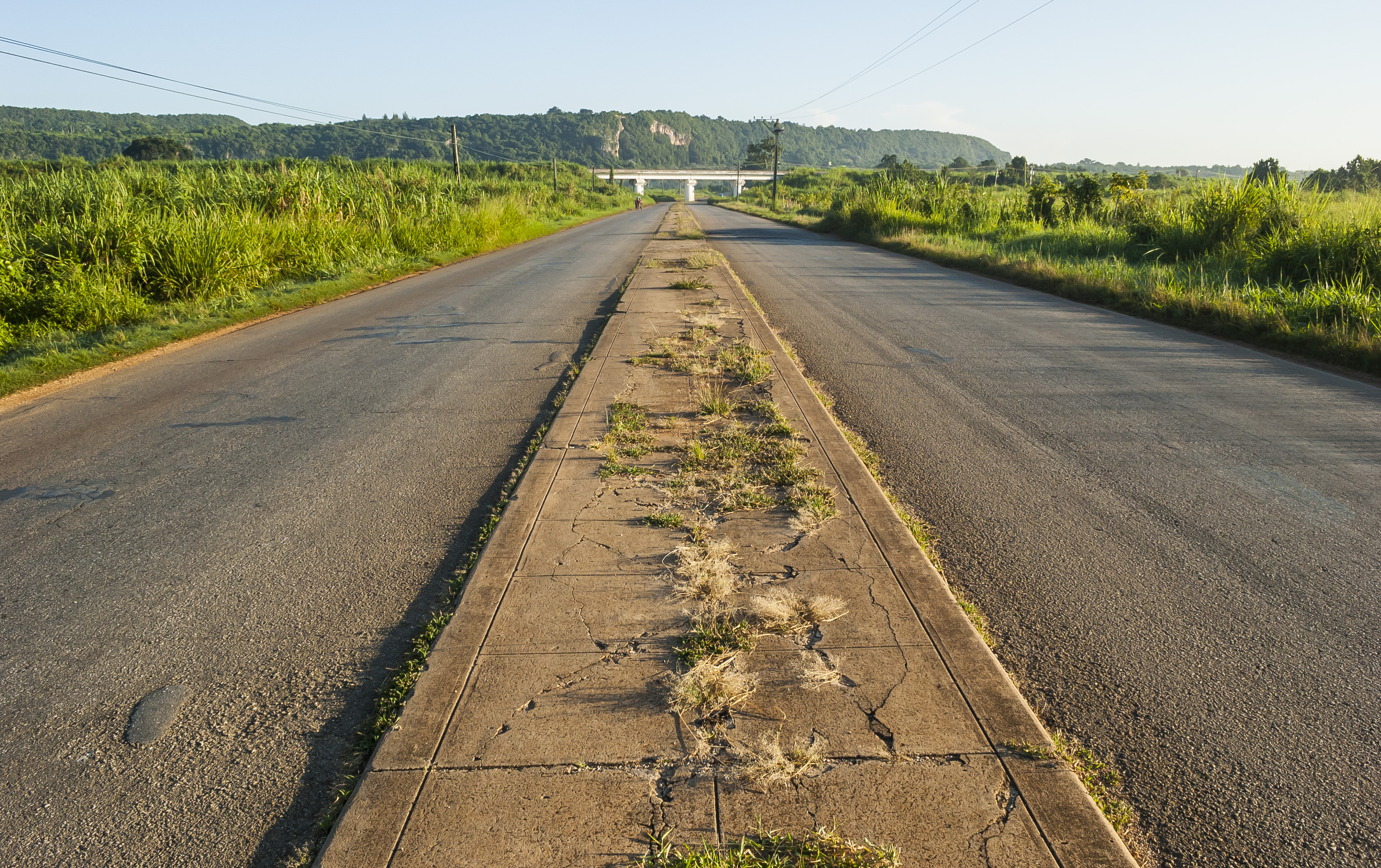 Double road Caimito-Guayabal, province of Artemisa, Cuba.